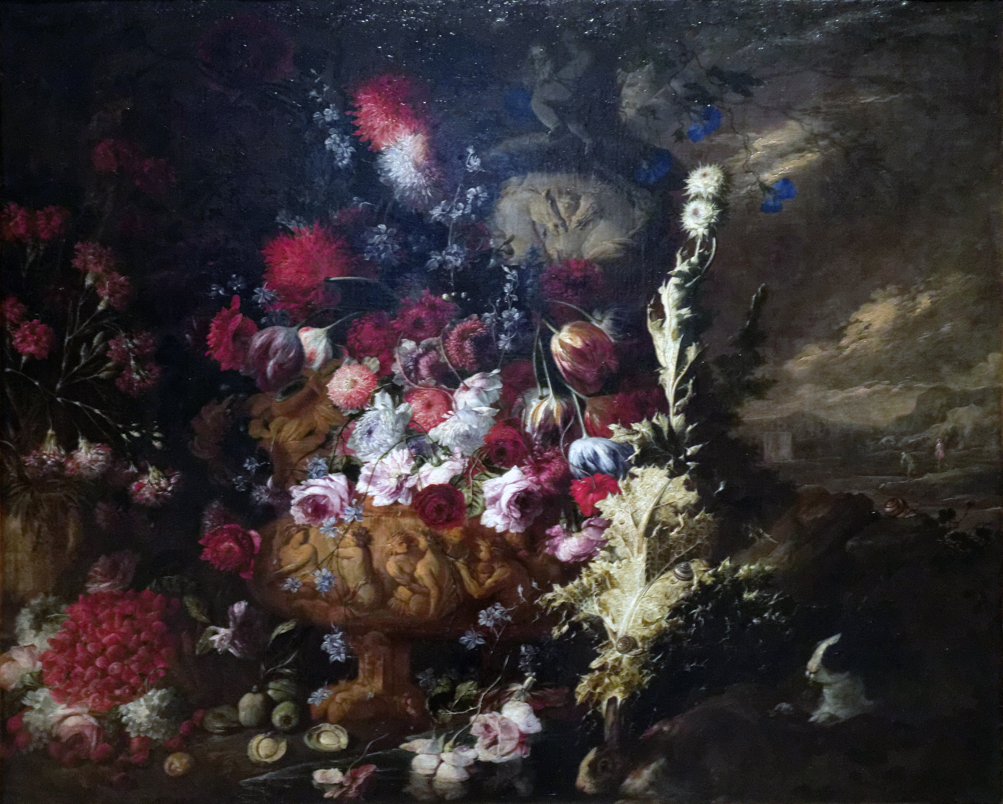 Landscape with Vases of Flowers and Fruits - Abate Andrea Belvedere - Louvre INV 20383